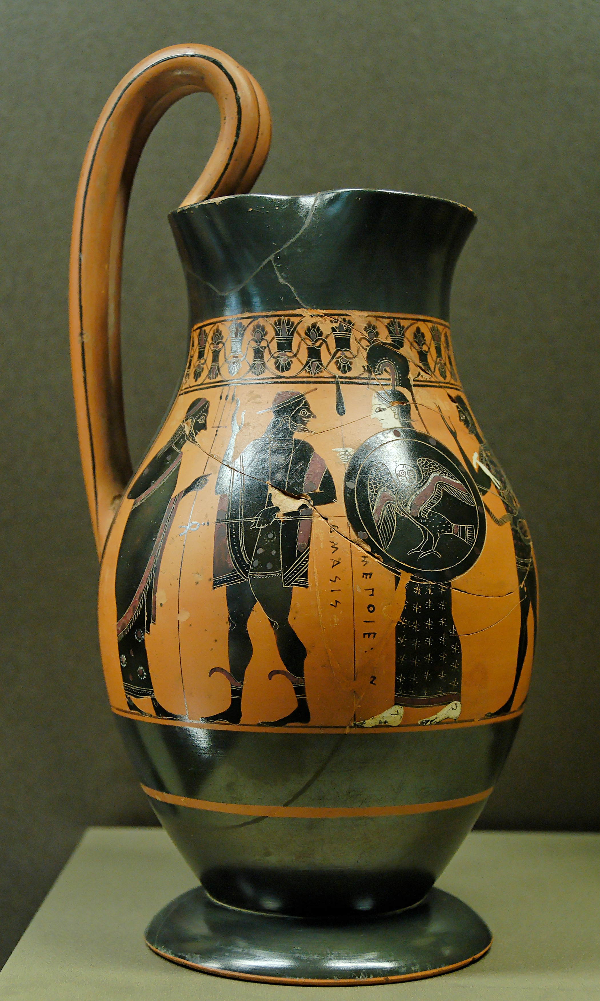 Herakles entering Olympus with Poseidon, Hermes, and Athena shown.